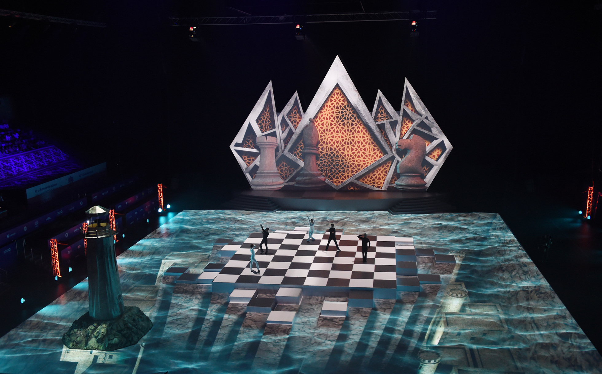 Opening ceremony of 42nd Chess Olympiad